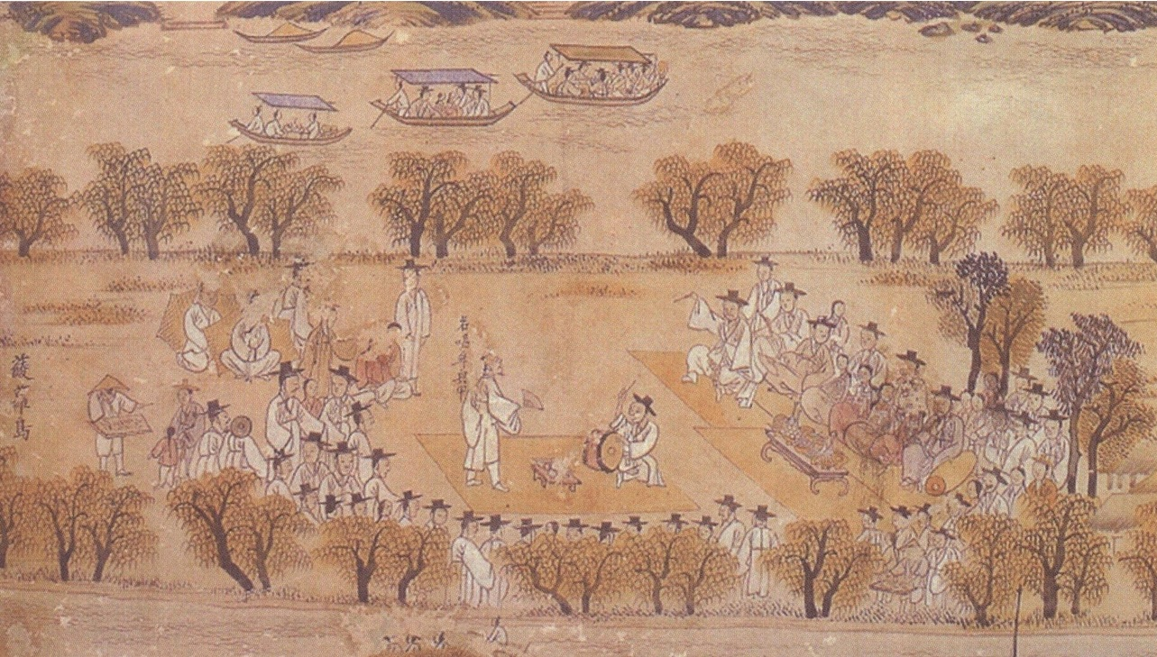 Mo Heunggap-ui pansorido, 19th century painting, National Seoul University Museum